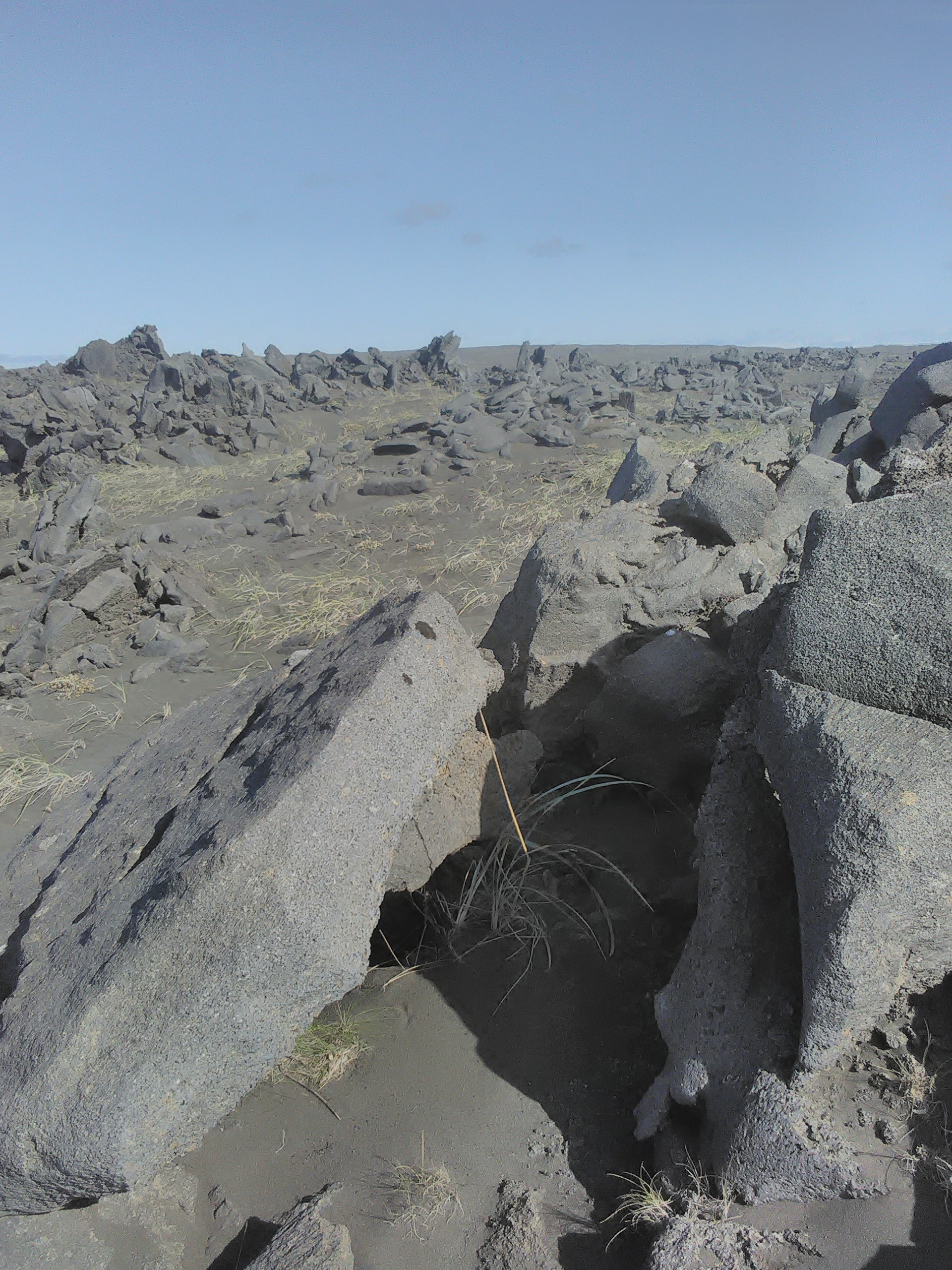 Lava field in Iceland